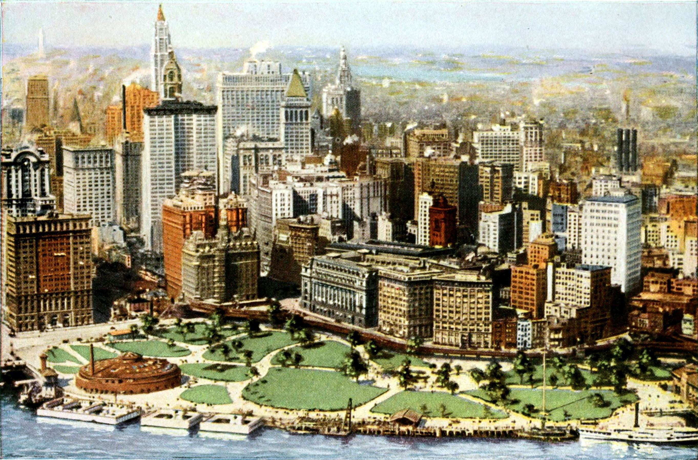 Aerial view of New York City in color.